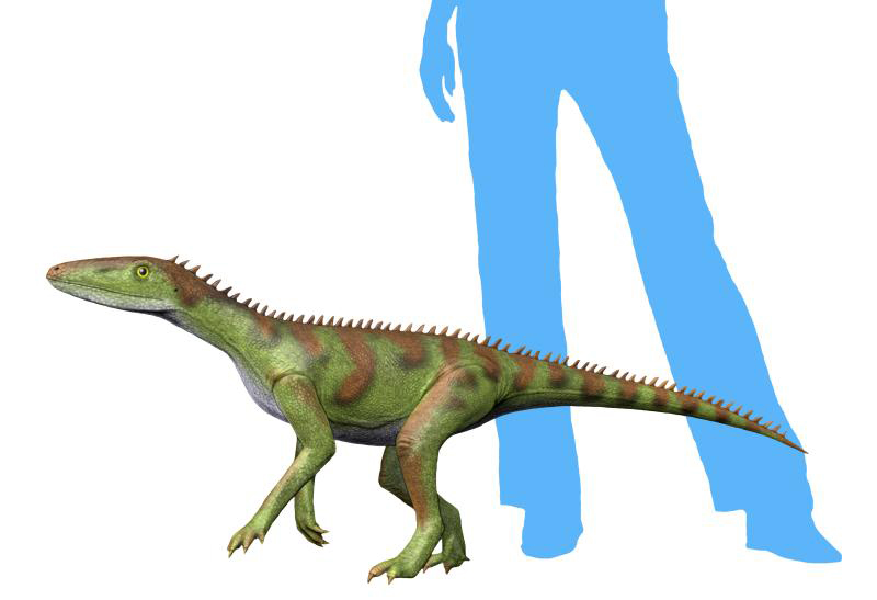 Life reconstruction of Lewisuchus admixtus